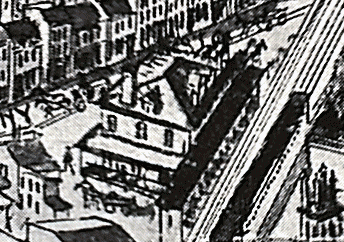 Aerial view of New Brunswick, NJ, 1910